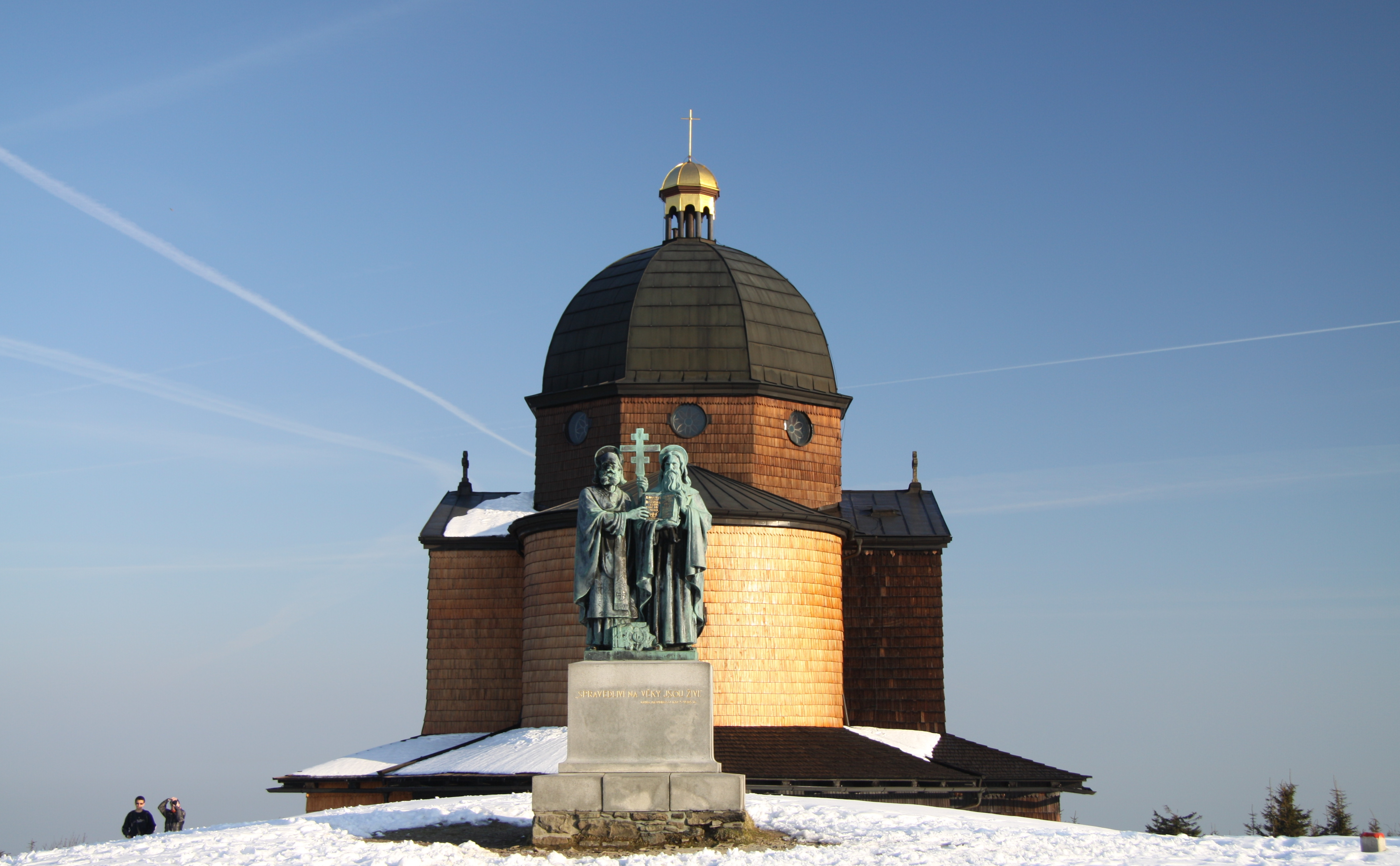 St. Cyril's and Metoděj's chapell on Radhošť hill in Moravian-Silesian Beskids, Czech Republic